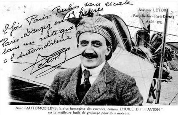 Publicity postcard of Leon Letort standing by his aircraft in 1913, crediting Automobiline Oil for 2 trips to Berlin and one to Danzig